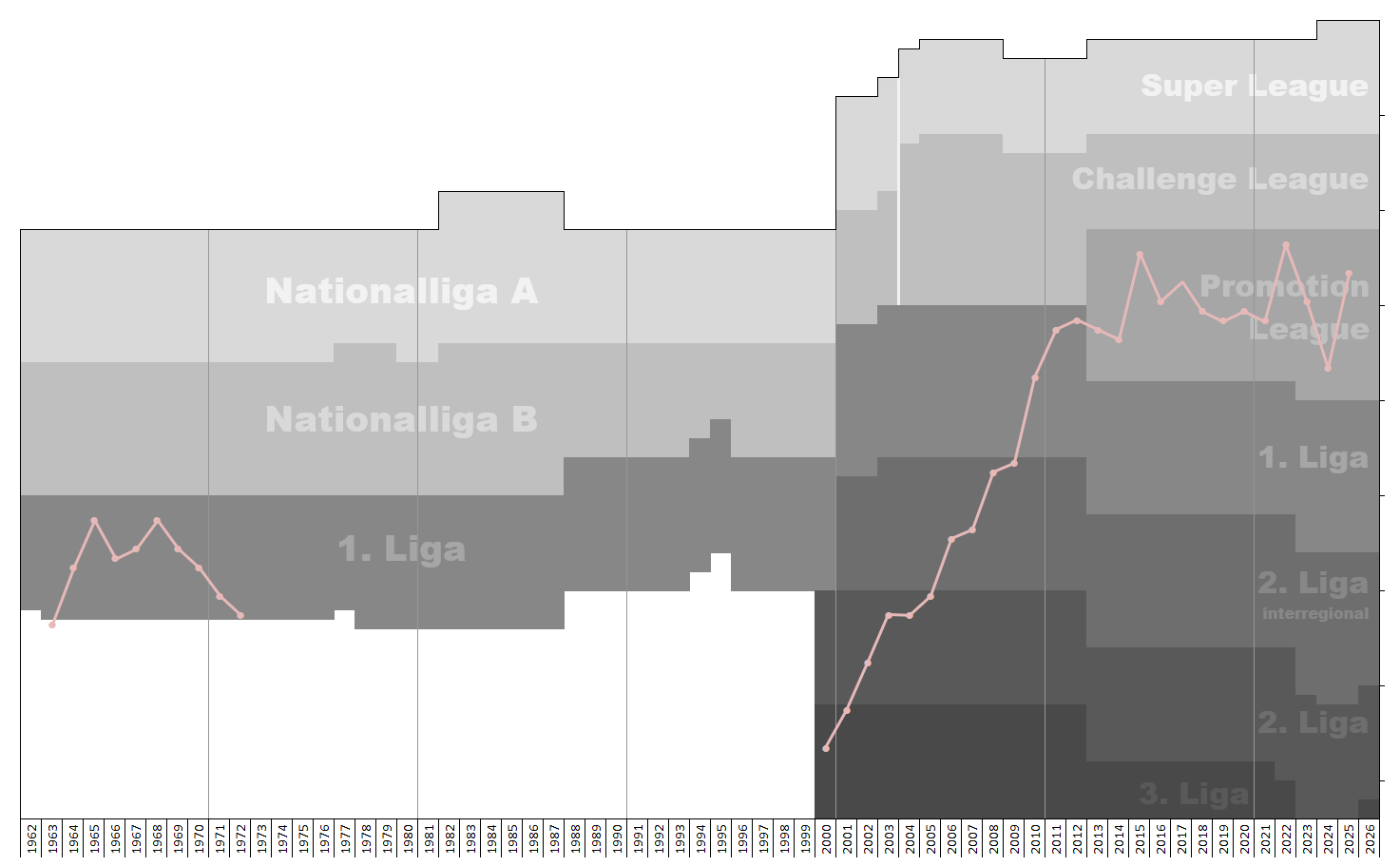 Chart of end-season table positions of FC Breitenrain in the Swiss football league system. Data source: RSSSF, , football.ch